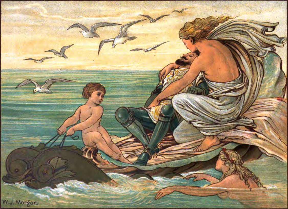 Cymoënt and Marinell